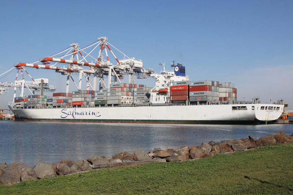 Container ship 'Safmarine Meru' at Swanson Dock West, Port of Melbourne. IMO number 9311696. Named after the second highest mountain in Tanzania, the first in a series of panamax container ships to be delivered to Safmarine by Hyundai Heavy Industries by the fourth quarter of 2007.